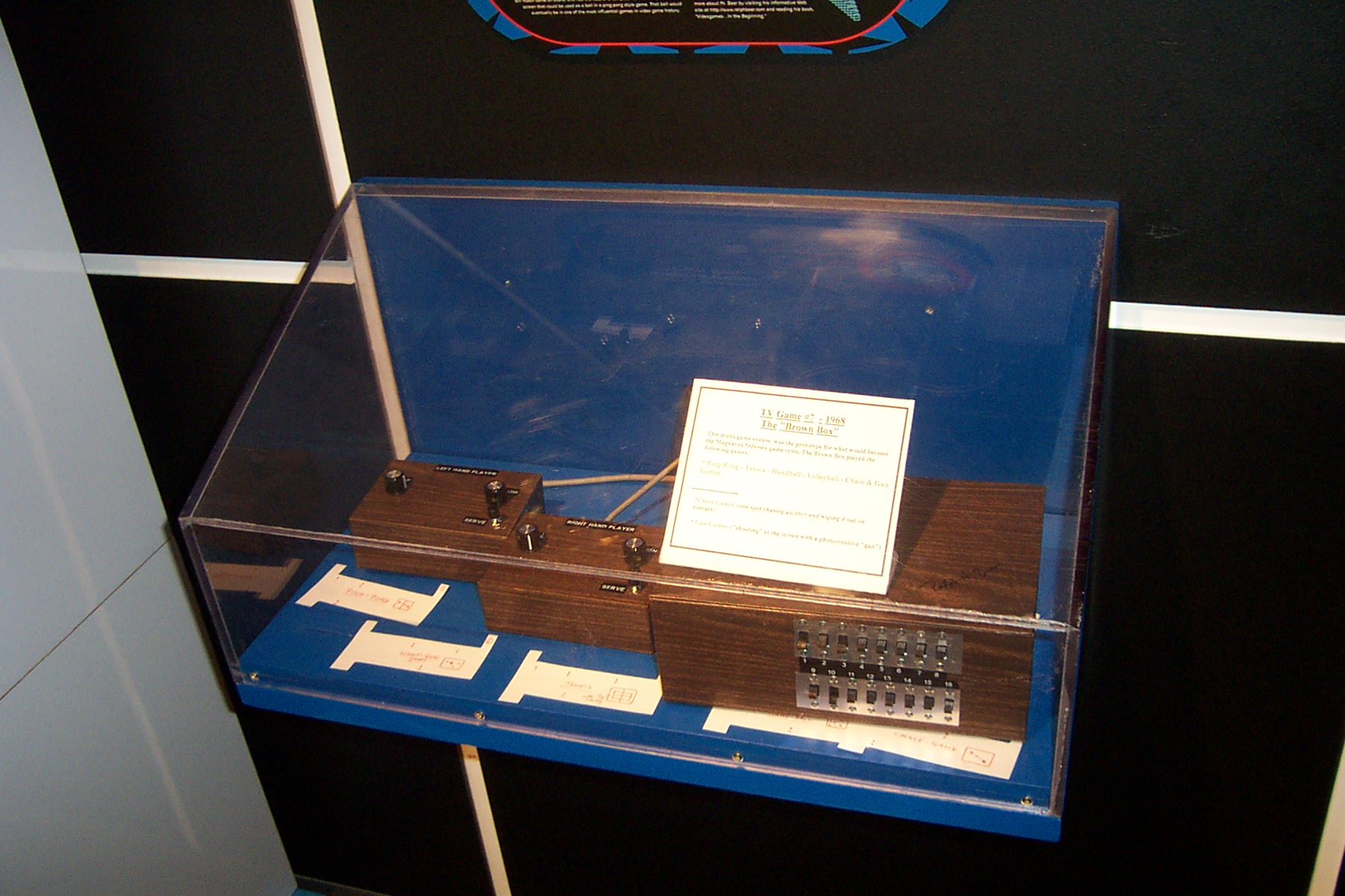 The "brown box" prototype of the Magnavox Odyssey autographed by creator Ralph Baer. In my opinion this is one of the most important pieces of video game history on display. Unfortunately it didn't get into the sordid history of this console and Pong.